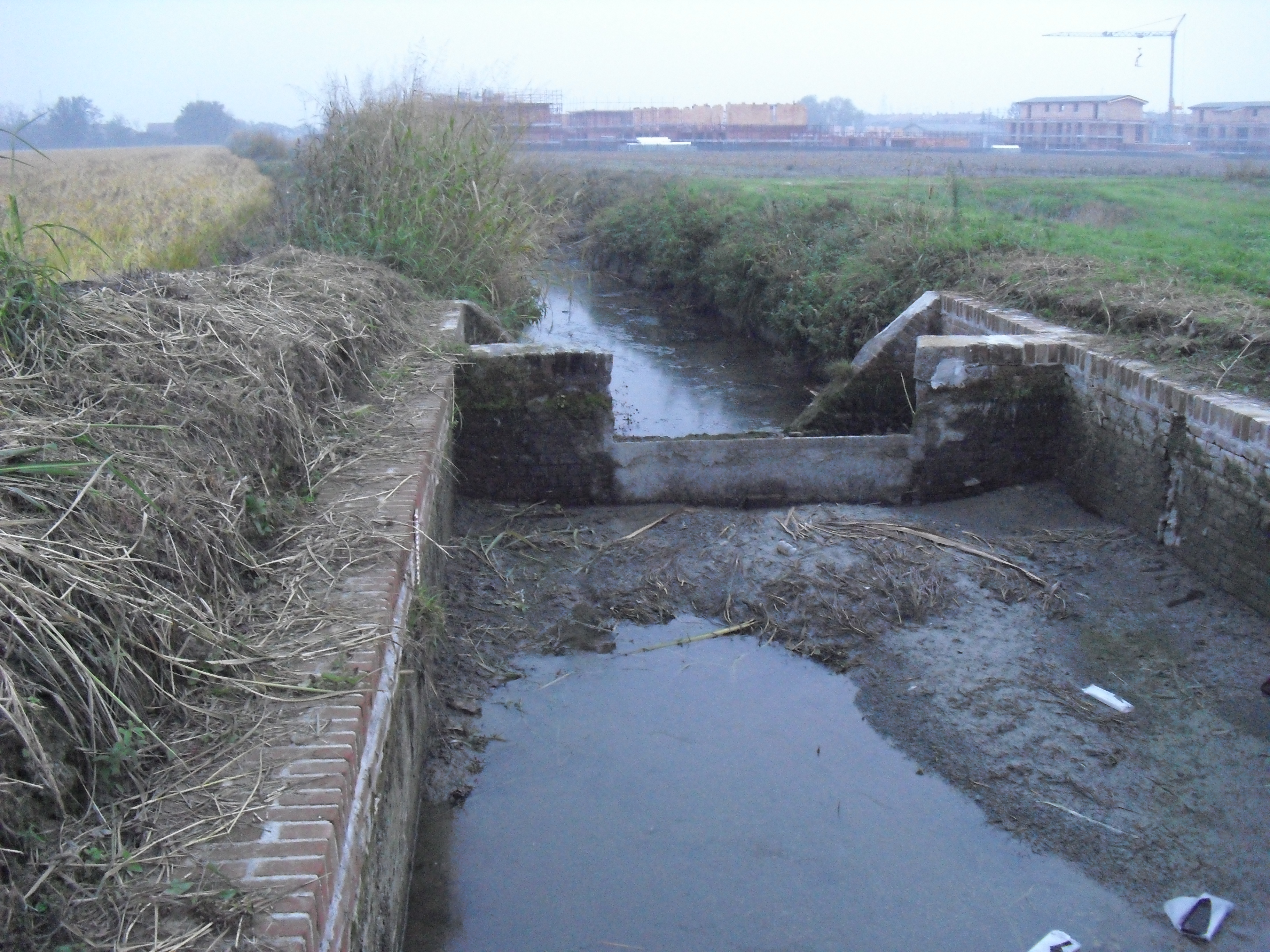 Ricca Channel near Torrion Quartara